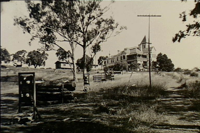 Obstacle course and headquarters Eastern Command Training School at Narellan, New South Wales, c. 1940